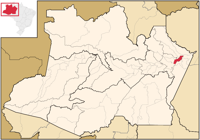 Map of Amazonas highlighting Urucurituba.